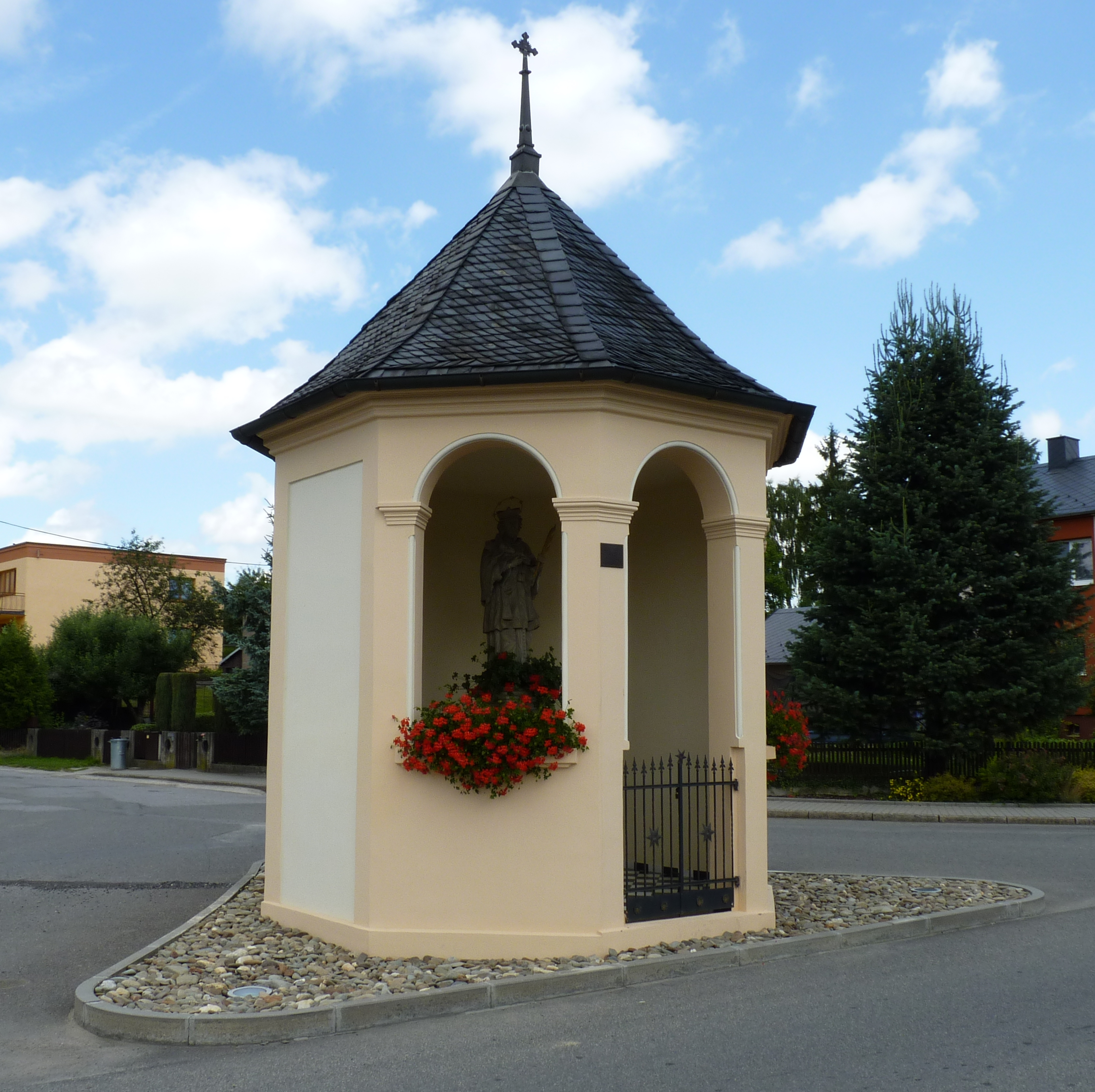 Chapel of St. John of Nepomuk in Píšť, Opava District, Moravian-Silesian Region, Czech Republic